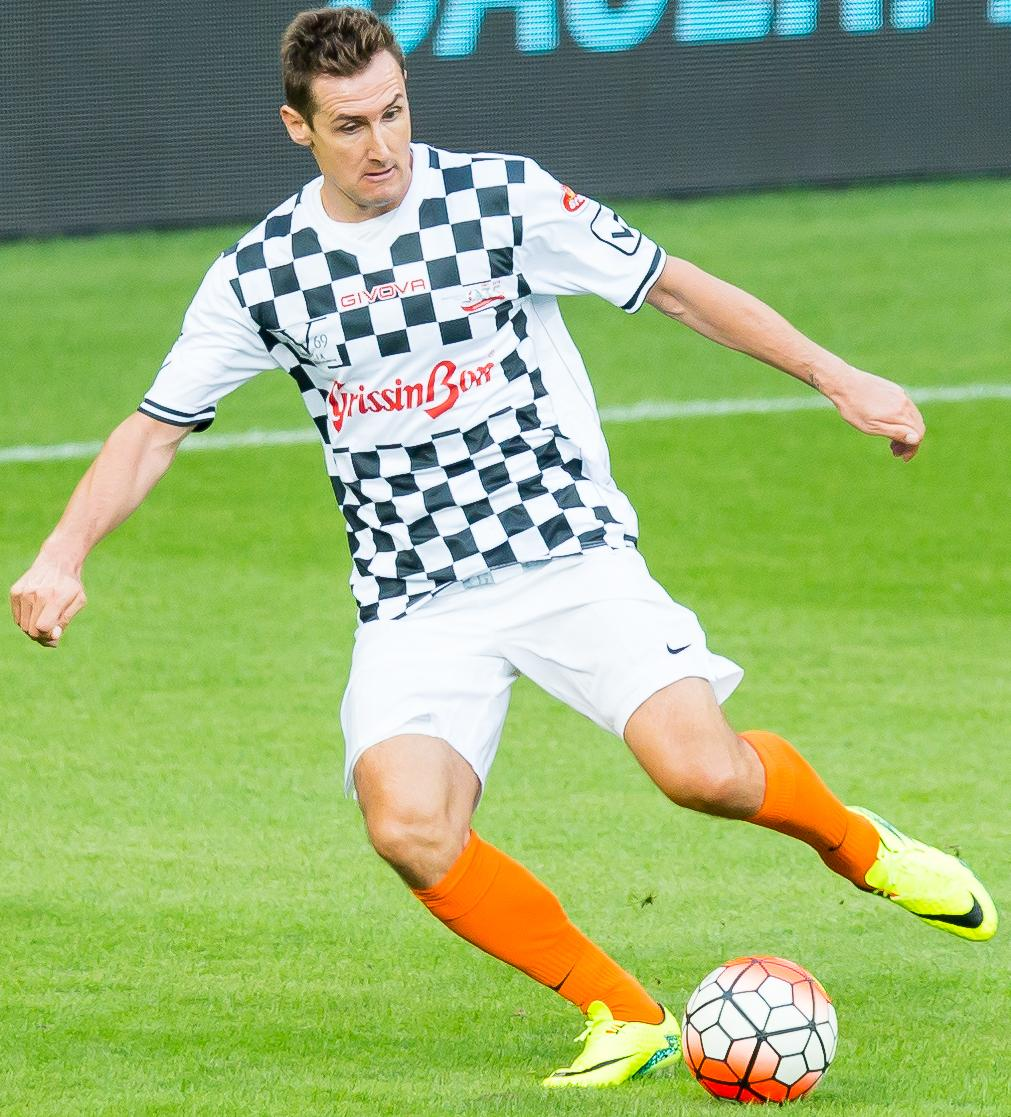 During football match between Nowitzki All Stars and Nazionale Piloti in honor of Michael Schumacher at Opel Arena, Mainz, Rheinland Pfalz, Germany on 2016-07-27, Photo: Sven Mandel